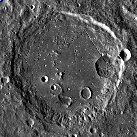 Gauss crater - LROC image